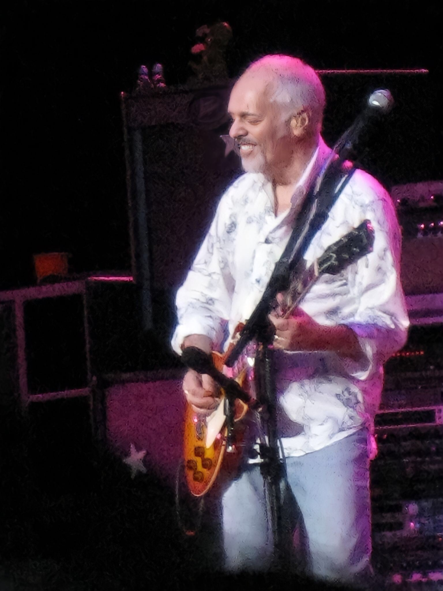 Peter Frampton opens for Jethro Tull at the Nikon Jones Beach Theater